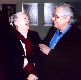 Eva-Maria Hagen and Werner W, Wallroth, 1987